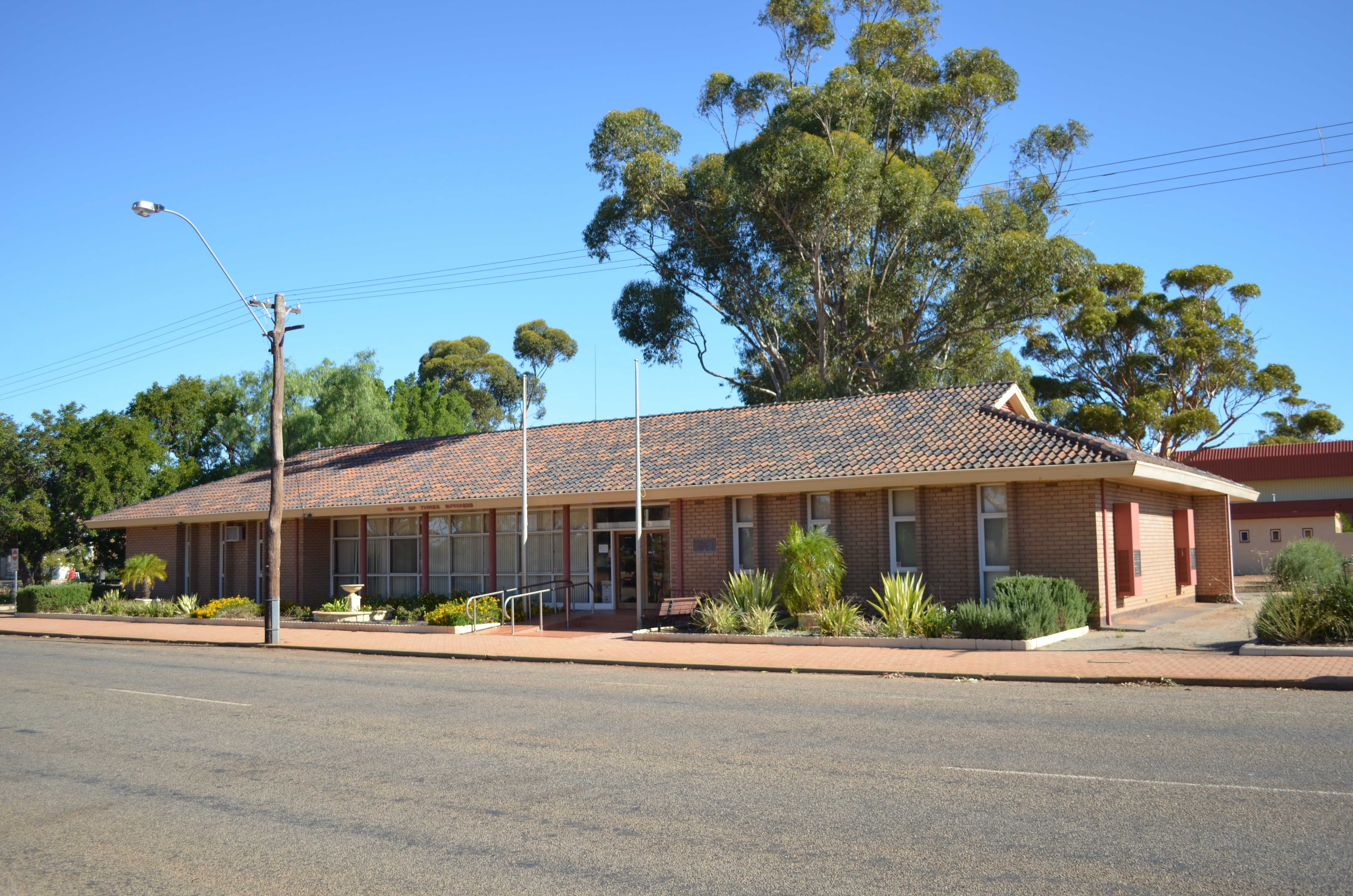 The shire office of the Shire of Three Springs, 132 Railway Road, Three Springs, Western Australia.